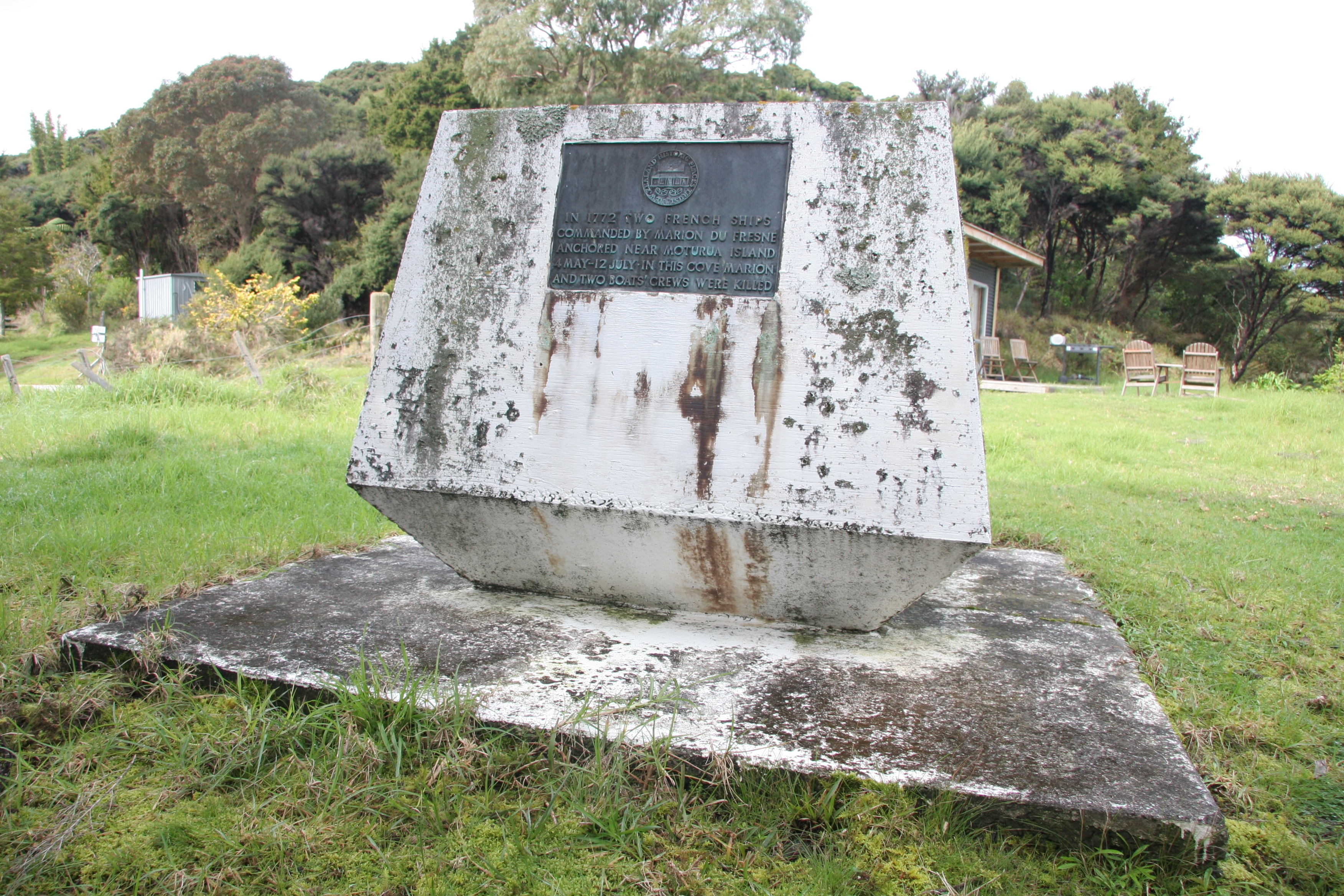 Monument a la mémoire de Marc Joseph "Macé" Marion-Dufresne et son equipage, Bay of Islands, New Zealand Te Hue Bay "Assasination cove" [1] In 1772 two French ships commanded by Marion Dufresne anchored near Moturua Island 4 May - 12 July. In this cove Marion and two boats' crews were killed.